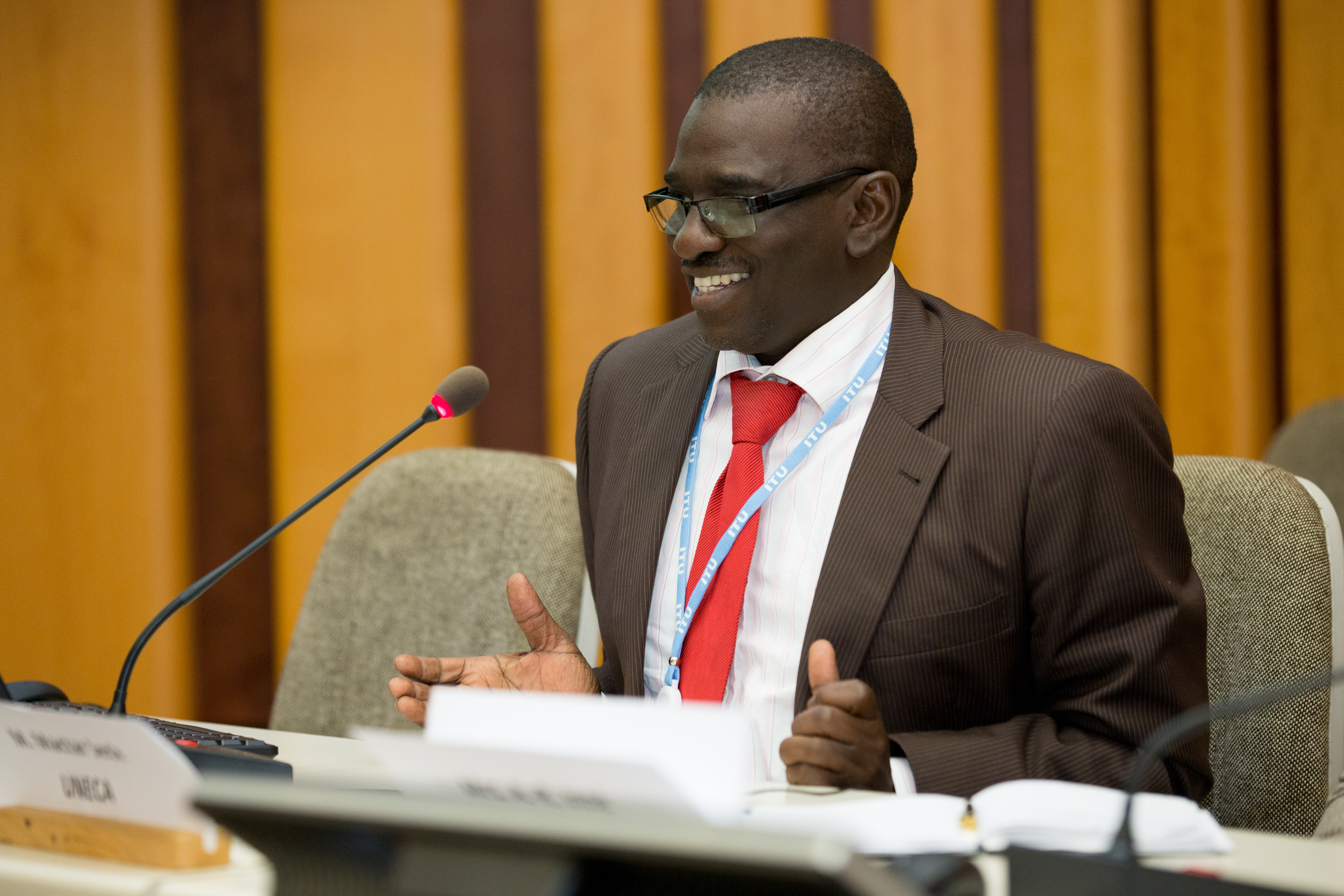 2nd May 2016 Hon. M. Sheriff Bojang , Minister of Informattion and Communication Infrastructure, The Gambia WSIS+10 and Beyond: Where do we Stand in Africa ? What are the Main Challenging Issues and Proposals for Implementation? ©ITU/I.Wood